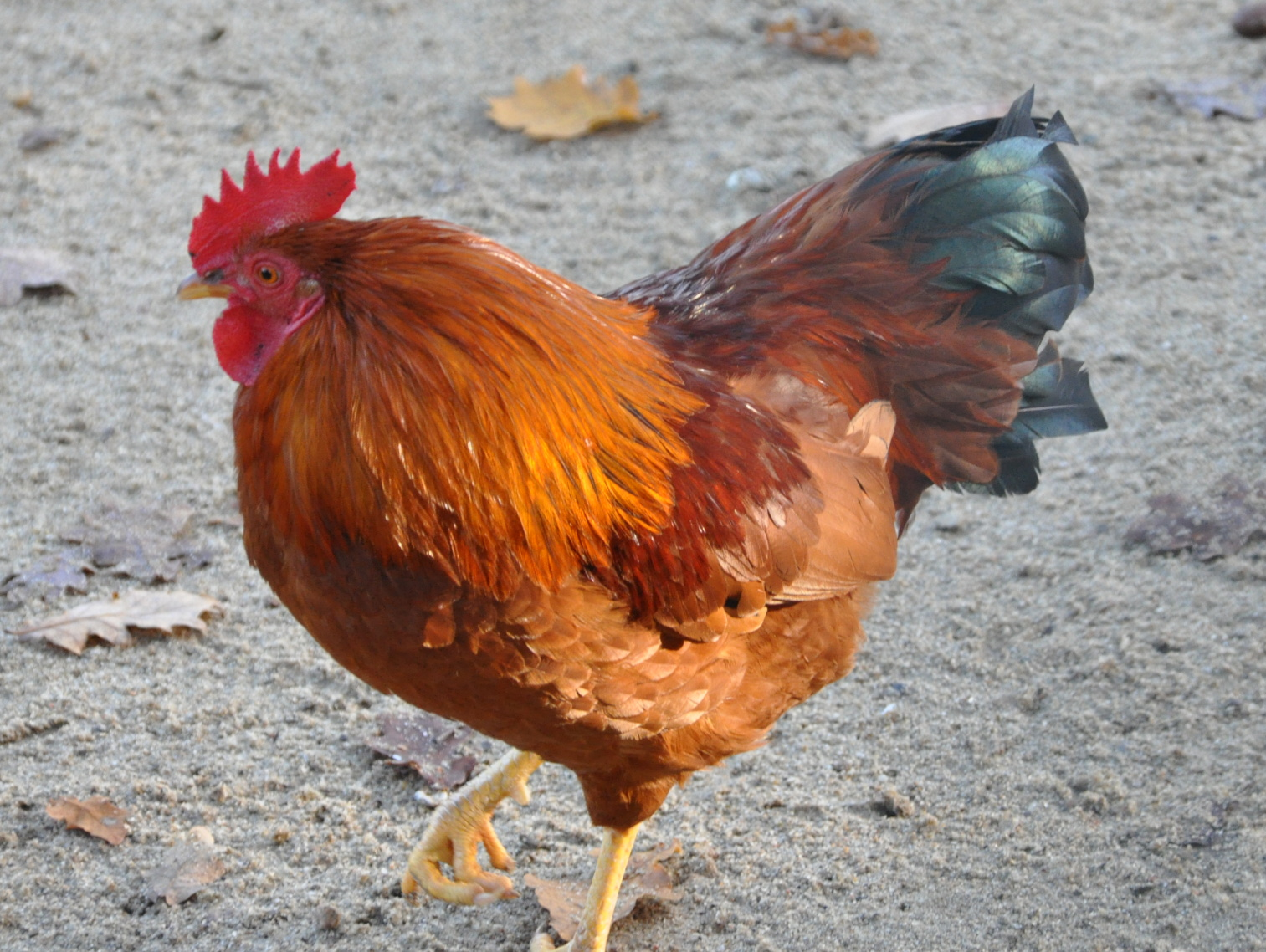 Bantam rooster (Gallus gallus domesticus) in the Lüneburg Heath wildlife park, Germany.